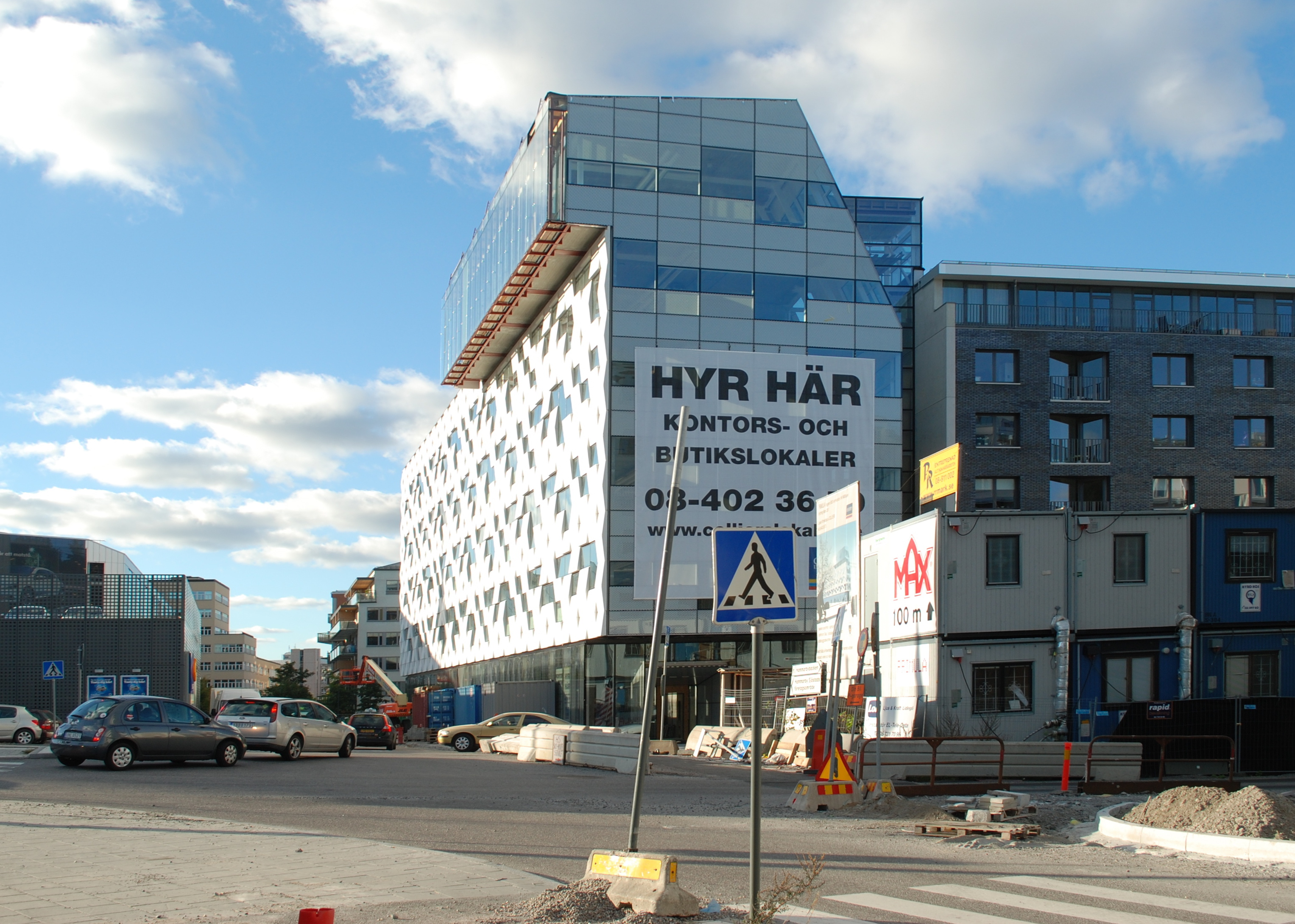 Lugnets Allé 1-3. Built 2010-11.